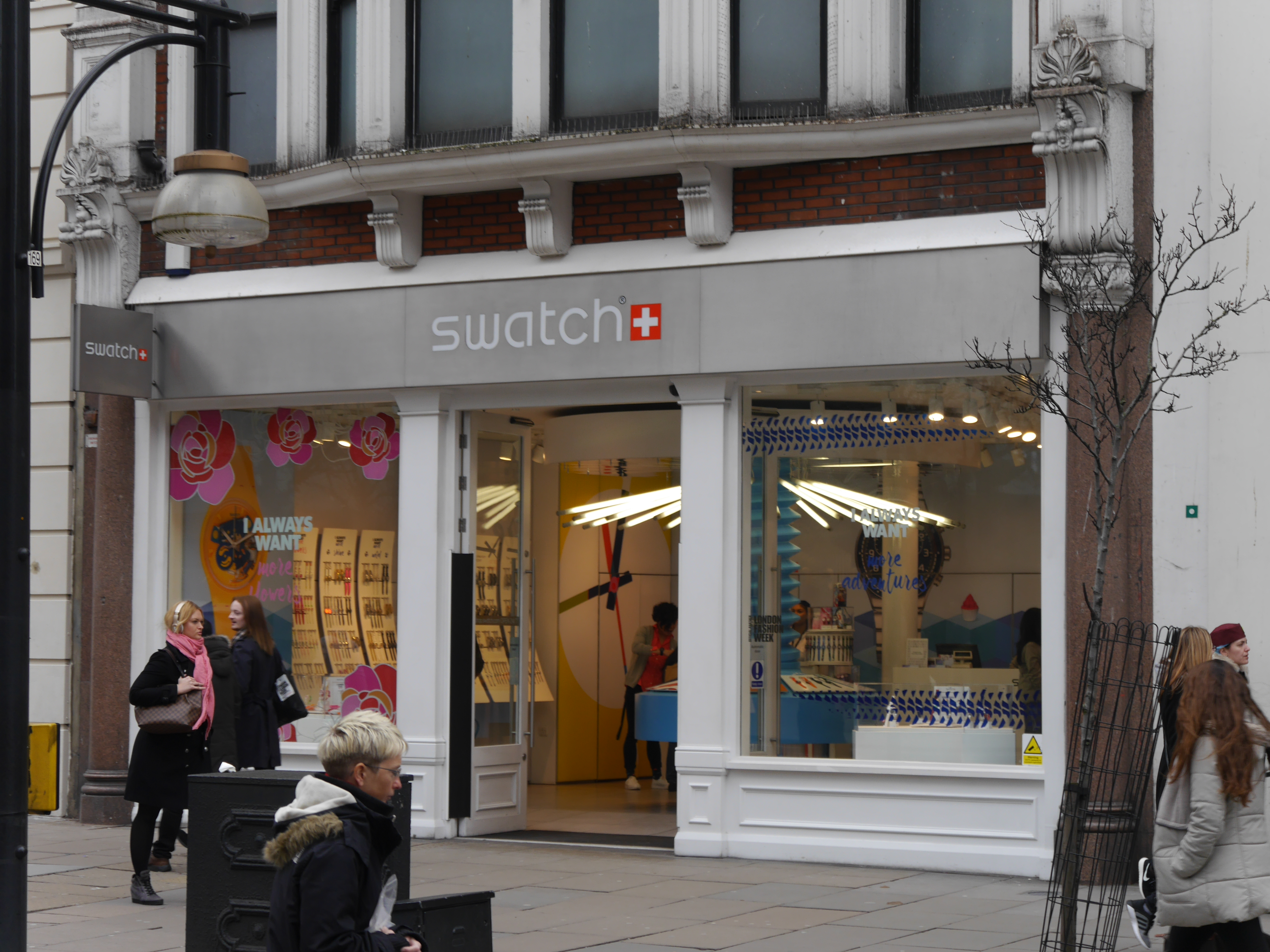 Oxford Street, London, March 2016